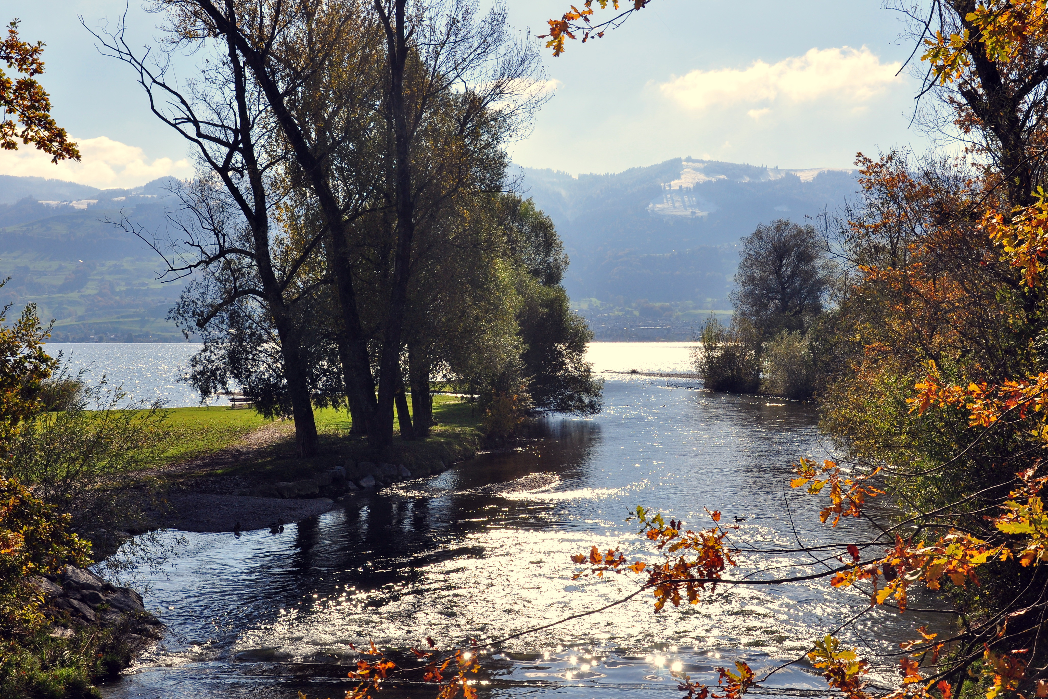 So-called Stampf, i.e. the river delta respecitively confluence of Jona river and Obersee (upper Lake Zürich) in Jona (Switzerland)